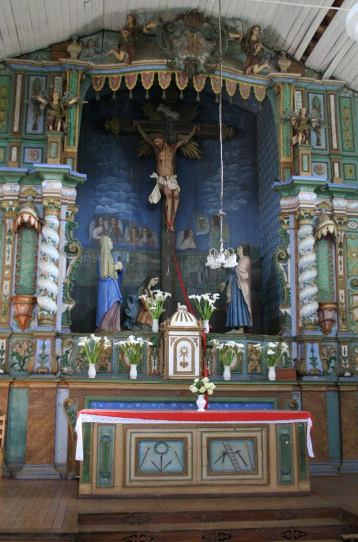 This is a Bom Jesus's church.